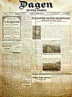 The front page of the norwegian newspaper Dagen from the 1919.